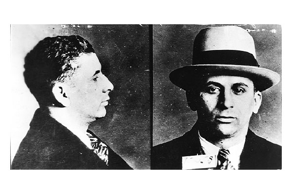 Meyer Lansky, mugshot of New York Police Departement